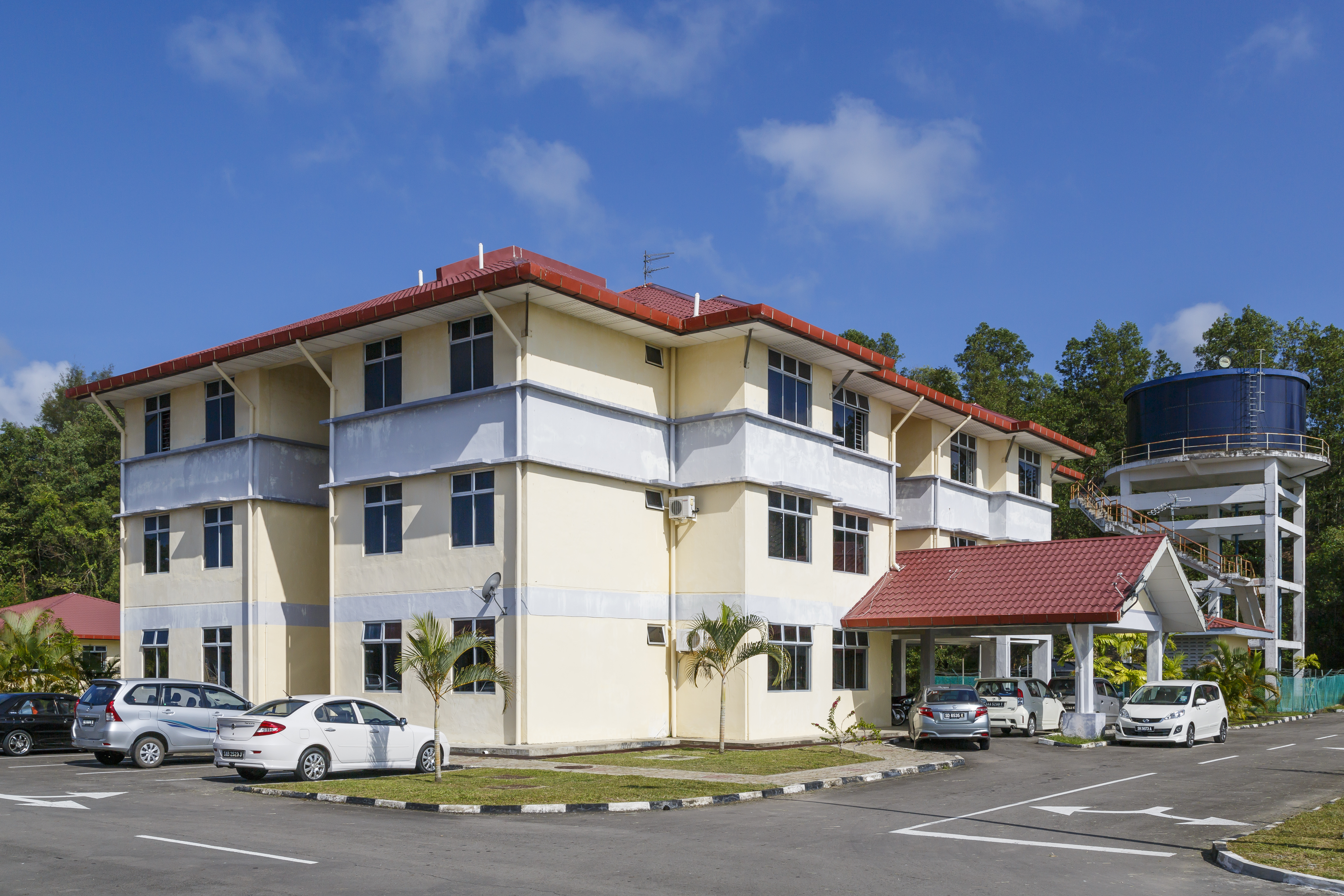 Sikuati,Sabah: "Pusat Pendidikan Perubatan Desa", a medical school of University Malaysia Sabah